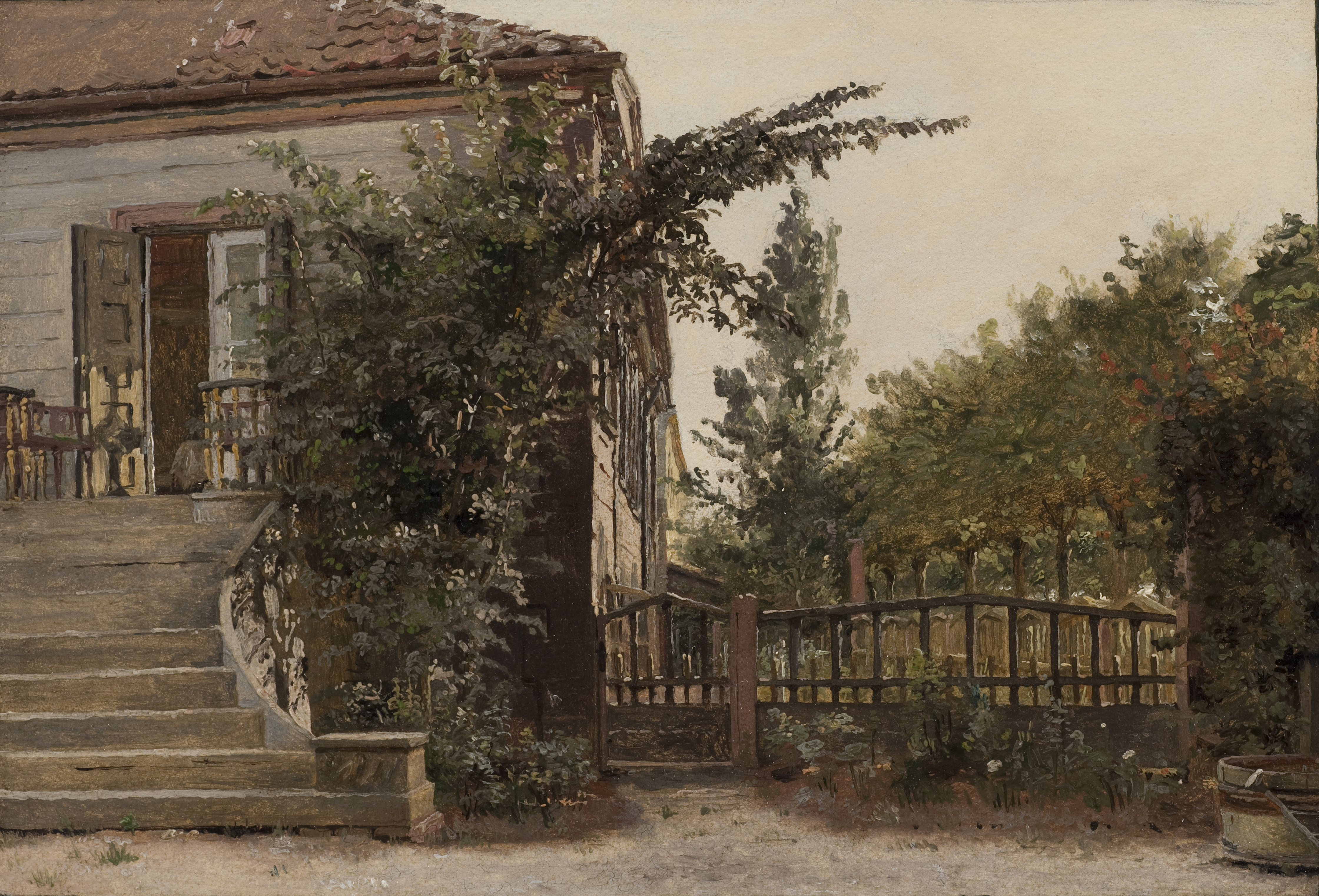 Depicted place: (55°41′44″N 12°34′10″E / 55.695535°N 12.569561°E)